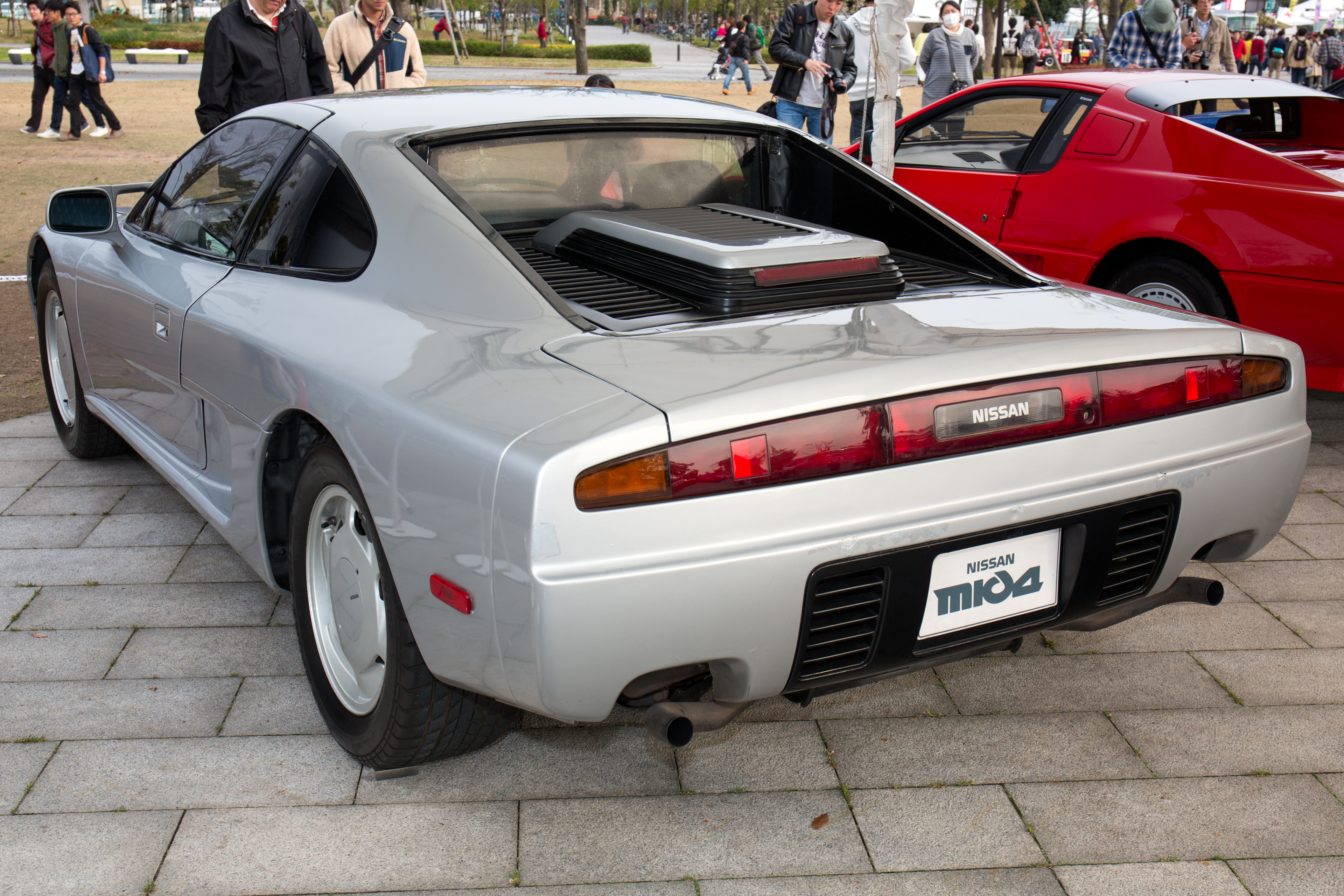 Motorsport Japan 2015: 1987 Nissan MID4 II